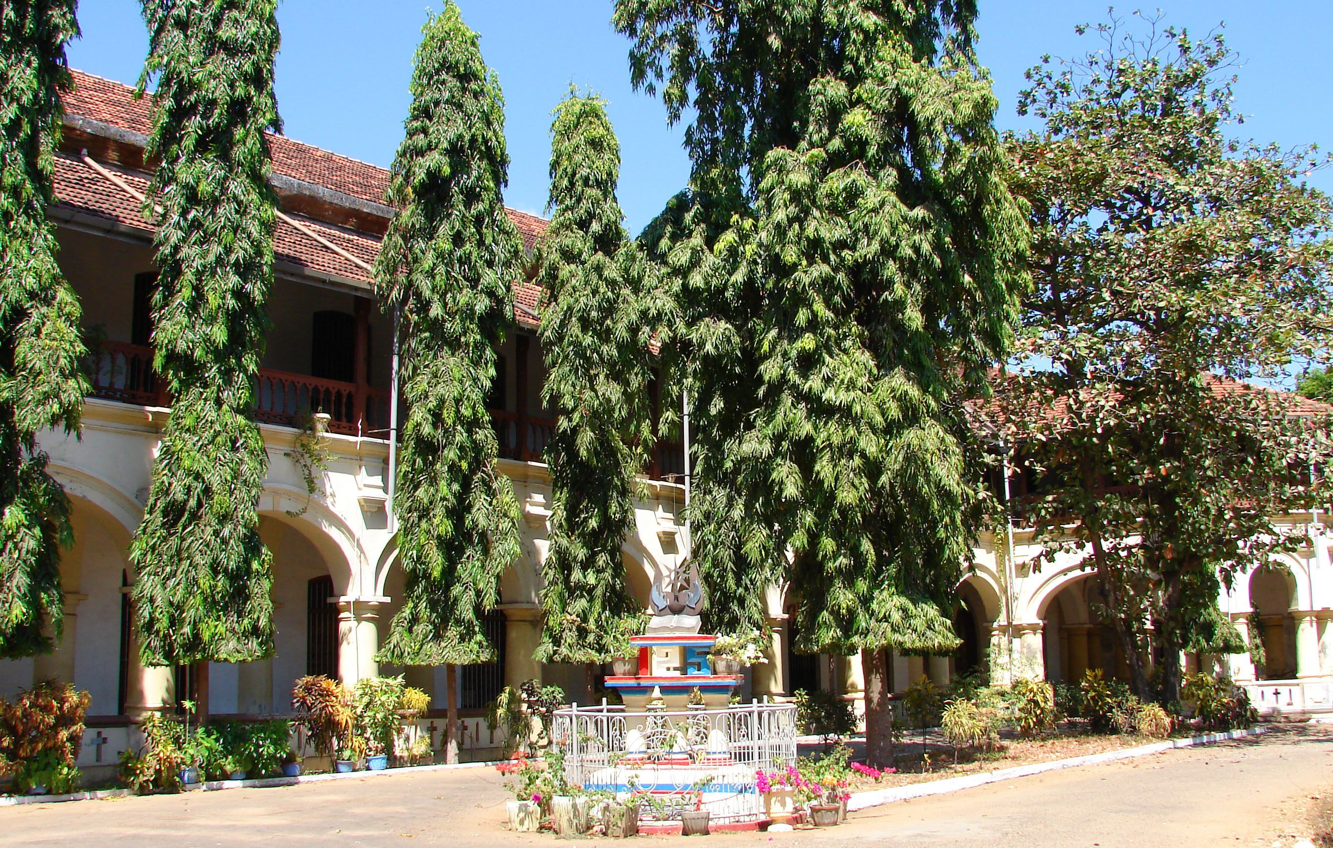 A side view of St. Michael's National School in Batticaloa.